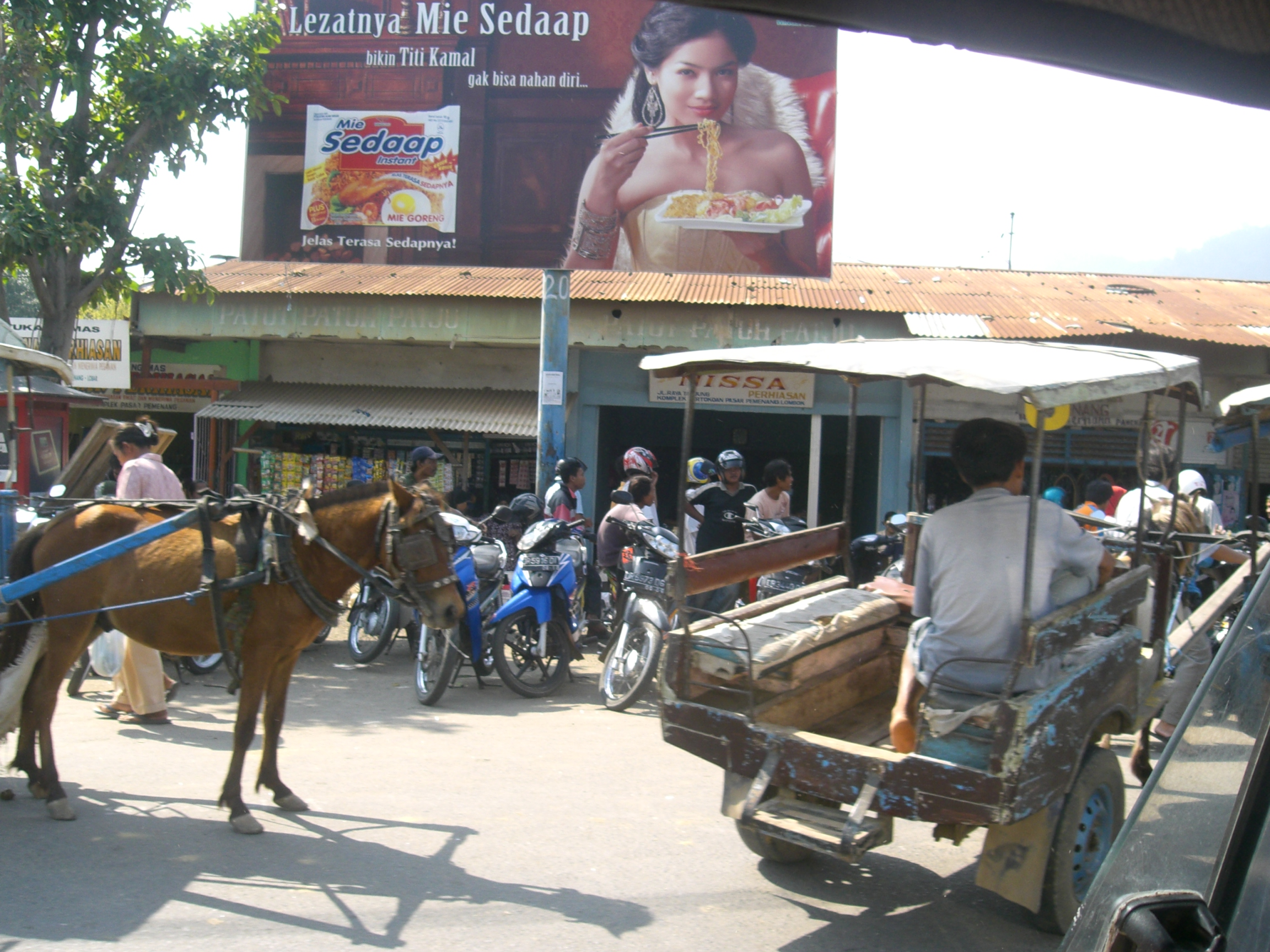 Cidomo in Pemenang, Lombok